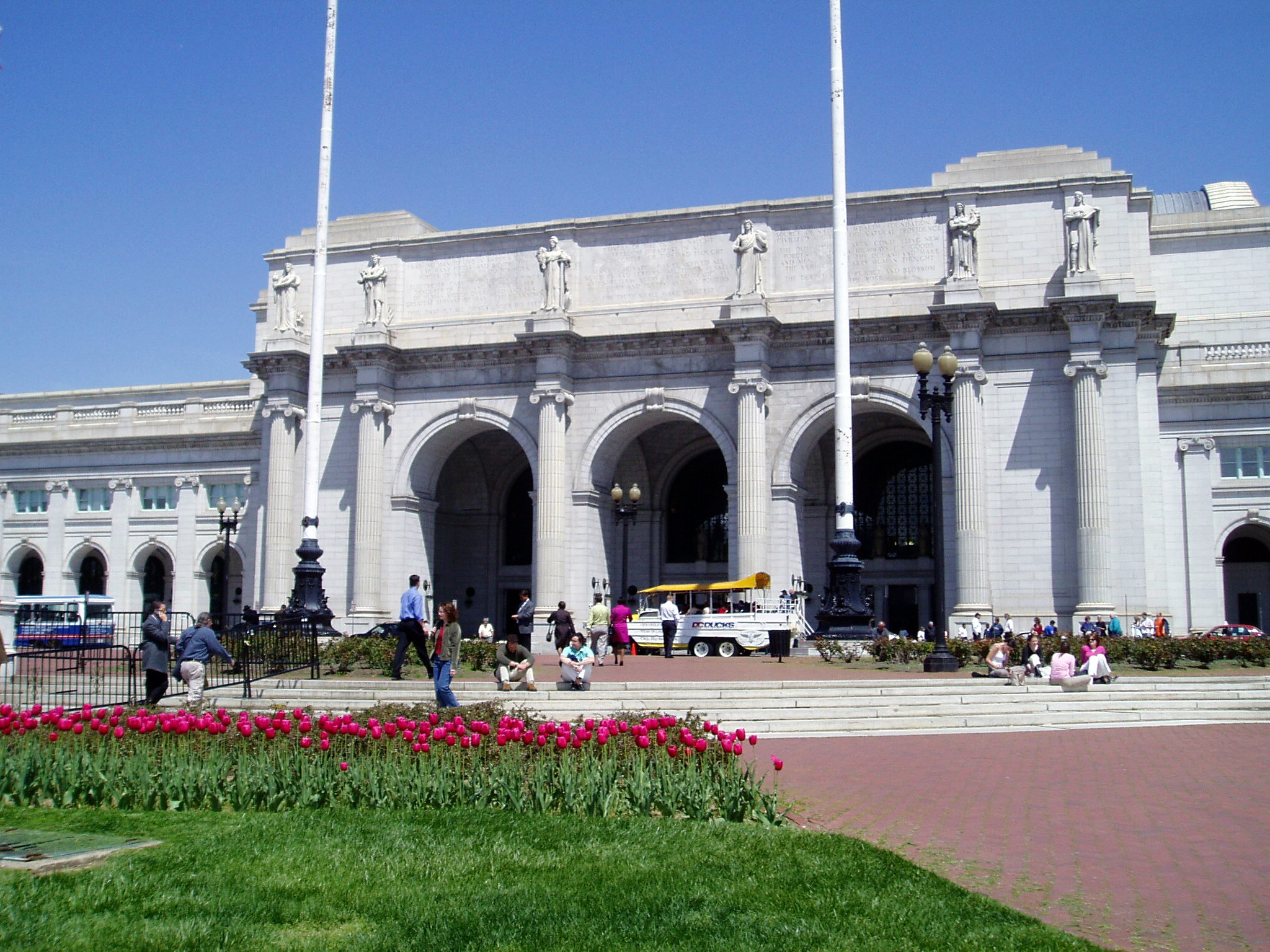 Union Station, a train station serving the greater Washington, D.C. area with services from Amtrak, MARC, Virginia Railway Express, and the Washington Metro. Following World War II, the station began to degrade until it was renovated for the bicentennial of the United States, becoming the National Visitor Center. It lacked popularity and eventually many of the updates (especially "the Pit") were closed. A complete redesign opened in 1988, offering Union Station as a mall/train station combination, complete with a movie theater, shops, and an extensive food court. It serves as the headquarters of Amtrak.